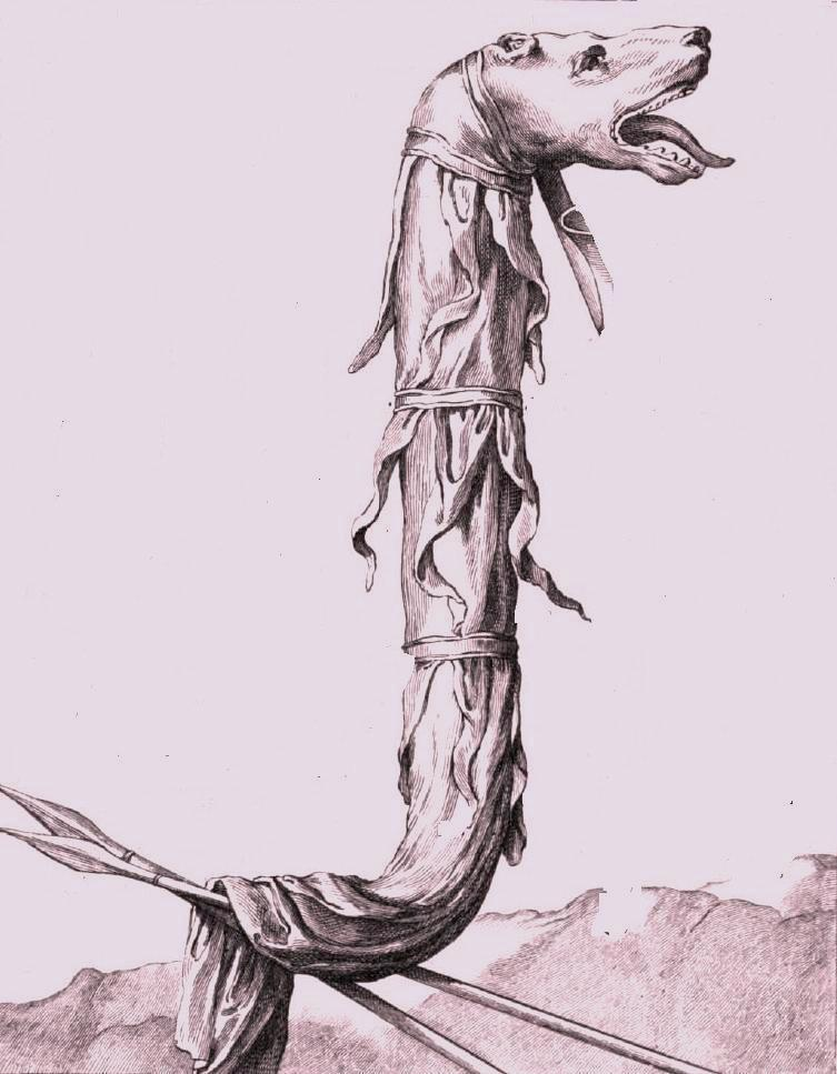 A digitized version of the so-called Dacian Draco,the standard of the ancient Dacians as it appears in the book Costume des anciens peuples, à l'usage des artistes by Michel-François Dandré-Bardon (1700-1783) printed in Paris, 1774|Source =Costume des anciens peuples, à l'usage des artistes by Michel-François Dandré-Bardon (1700-1783) printed in Paris, 1774 [1]